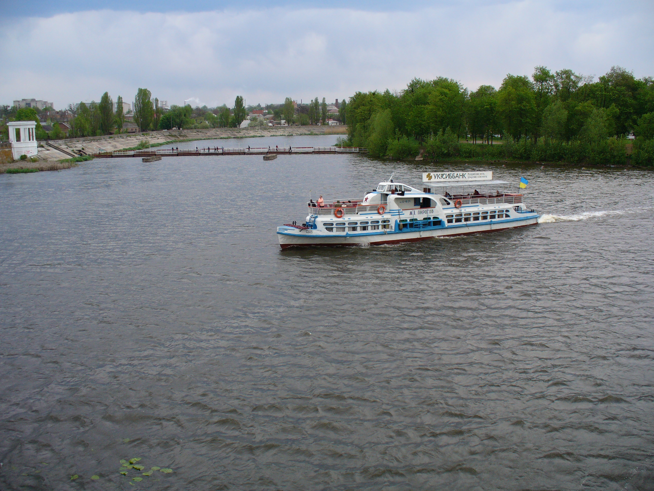 Vinnitsa, Ukraine. View from a bridge to the Southern Bug river. Old passenger river ship "N.I.Pirogov" (Type Moskvich ship).